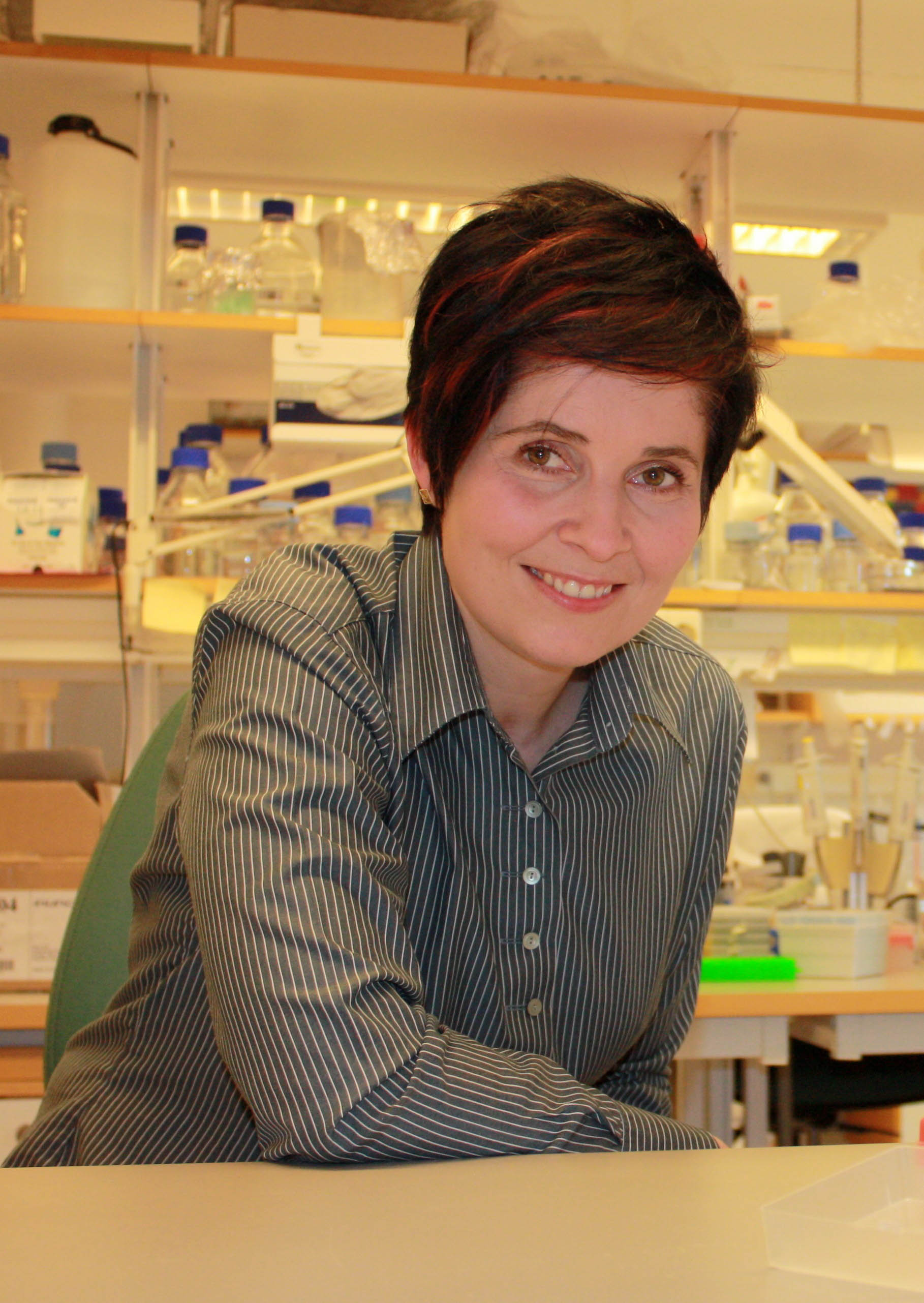 Anna Blom in her laboratory, 2012.